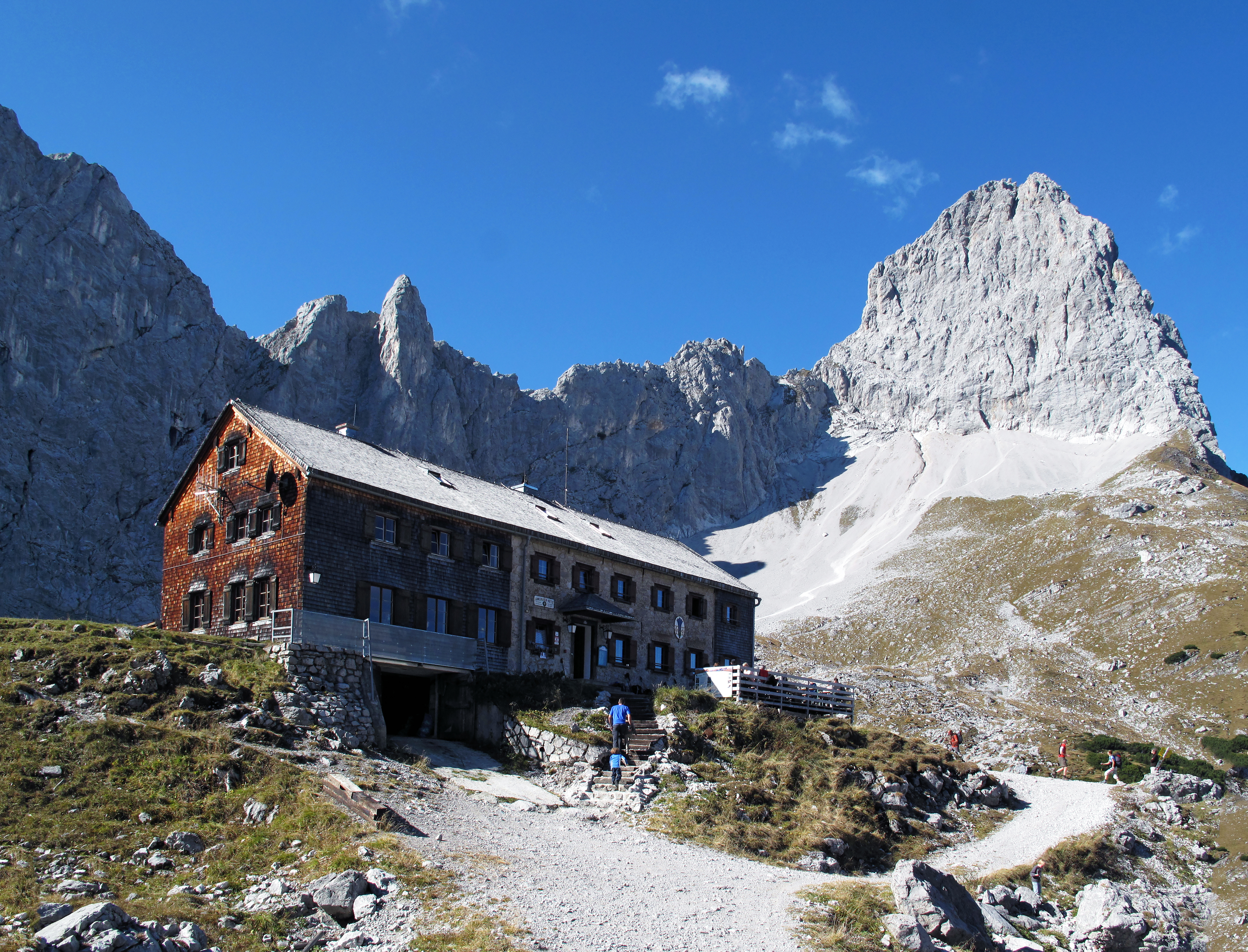 Lamsenjochüttte vor Lamsenspitze, Karwendel